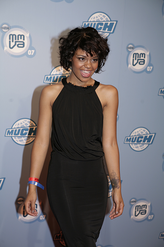 Fefe Dobson was an attendee at the 2007 MuchMusic Video Awards, held the night of Sunday, June 17, 2007 in Toronto, Ontario, Canada.